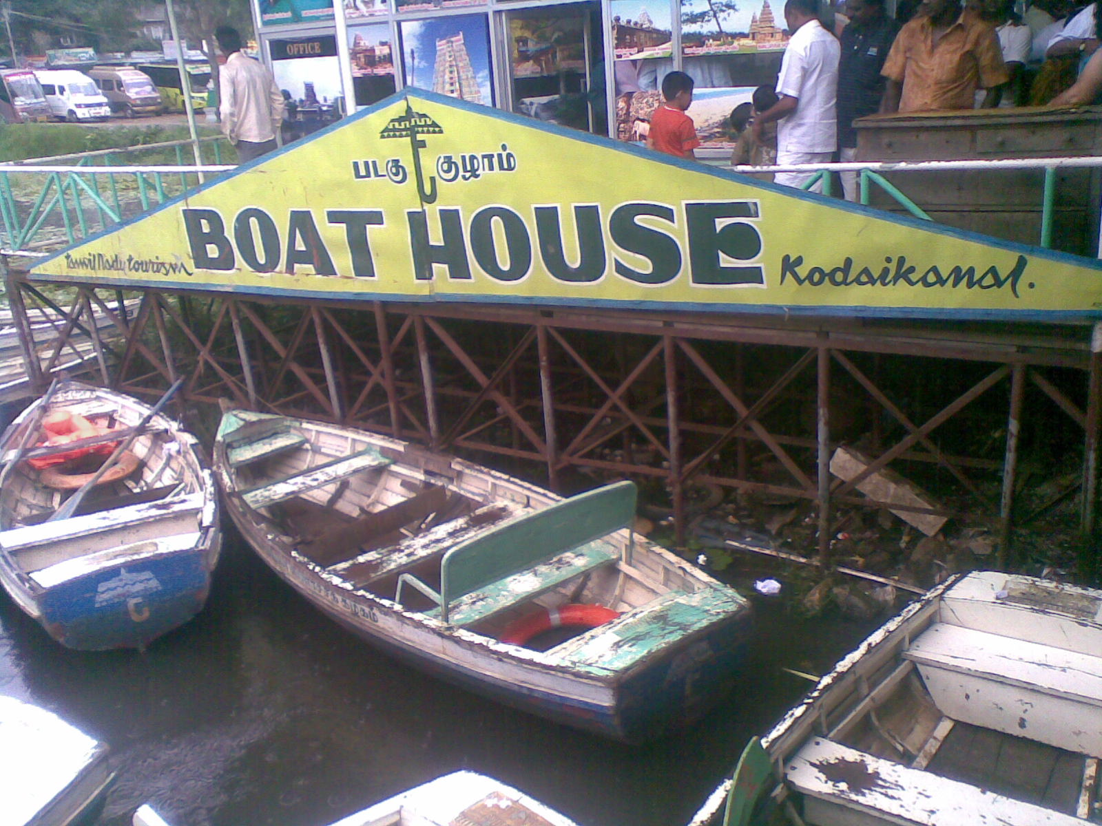 இந்த படகுக் குழாம் கொடைக்கானலில் உள்ளது. இந்த படகுக்குழாமினை தமிழ் நாட்டரசு நிருவாகம் செய்கிறது. கொடைக்கானல் தமிழத்தின் மலை சார்ந்த சுற்றுலாப் பகுதிகளில் ஒன்றாகும்.